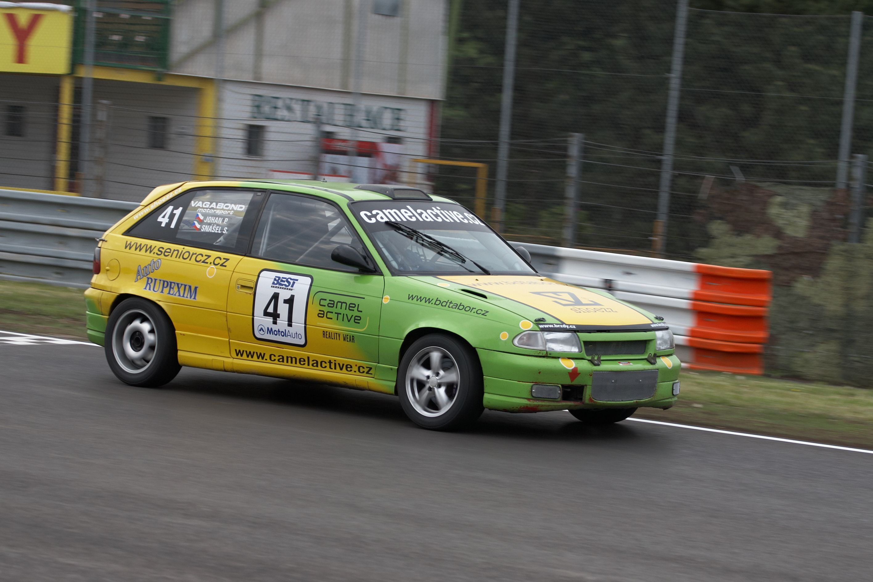 Opel Astra during 12h Le Brno race